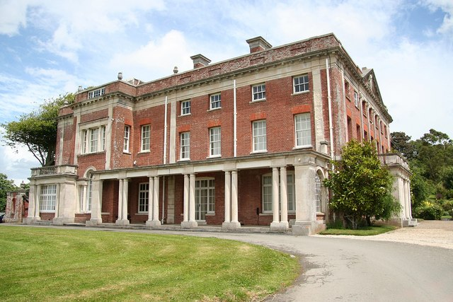 Tapeley Park West front of Tapeley Park neo-Georgian mansion by Sir John Belcher in 1901